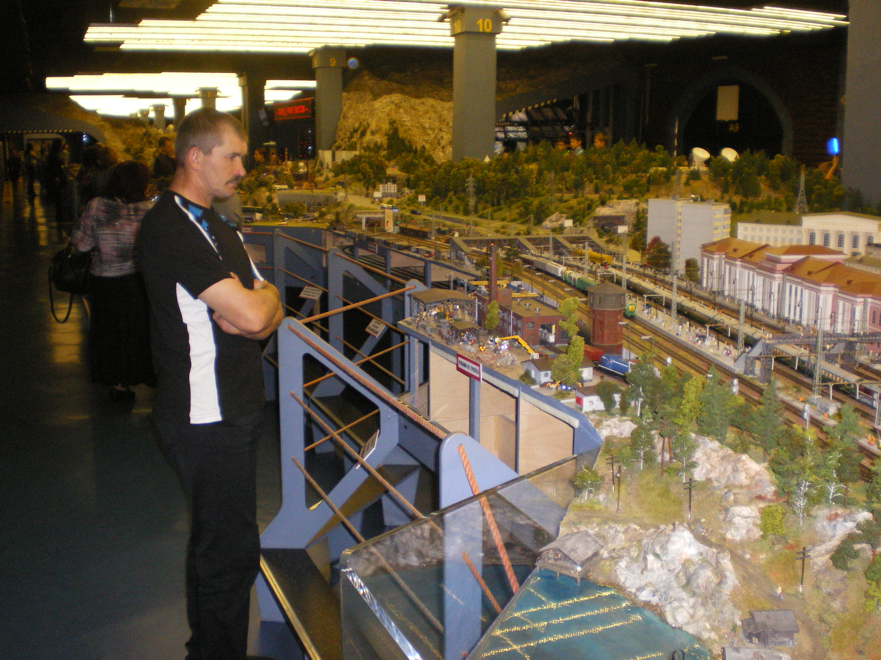 Grand Maket Russia